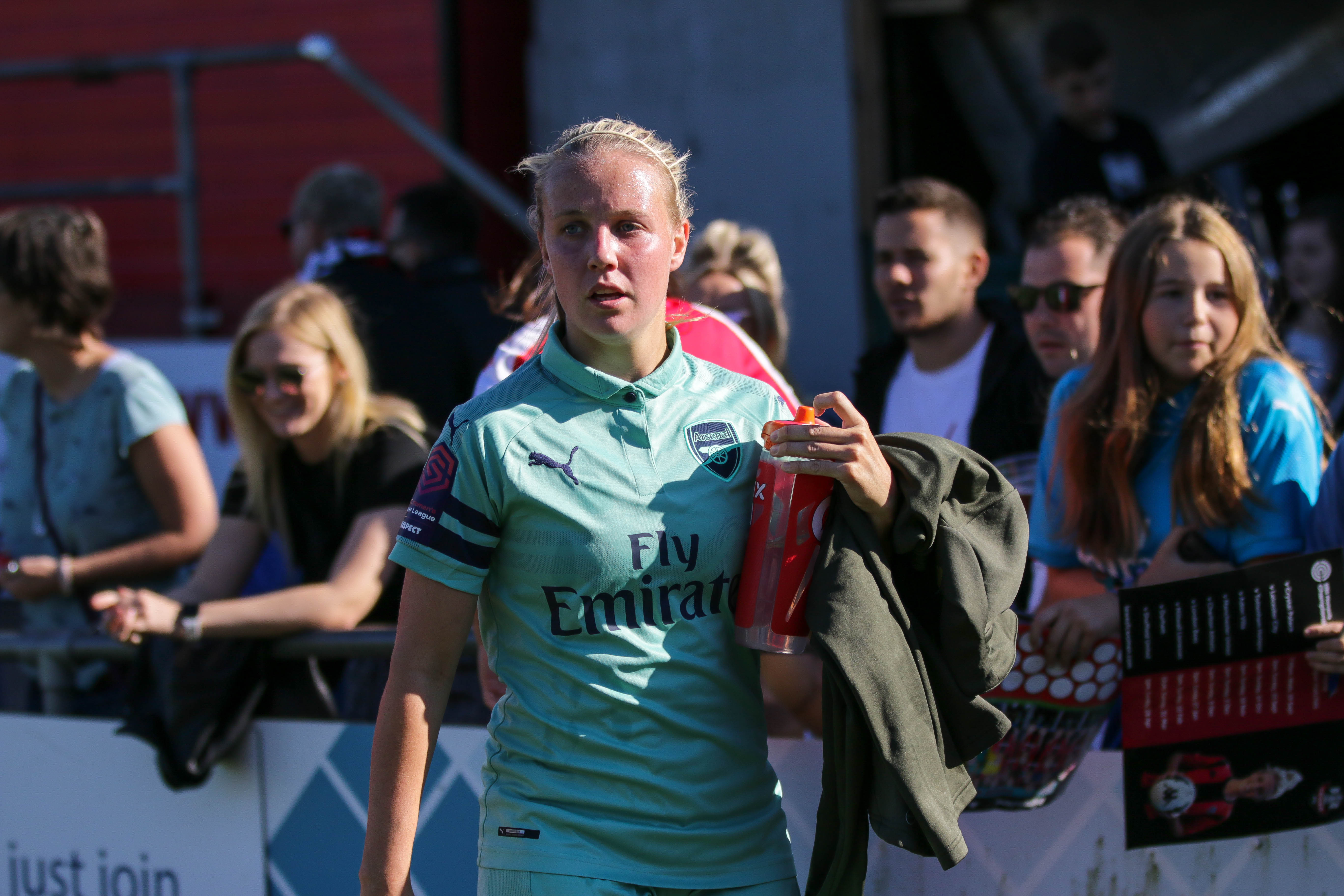 Beth Mead